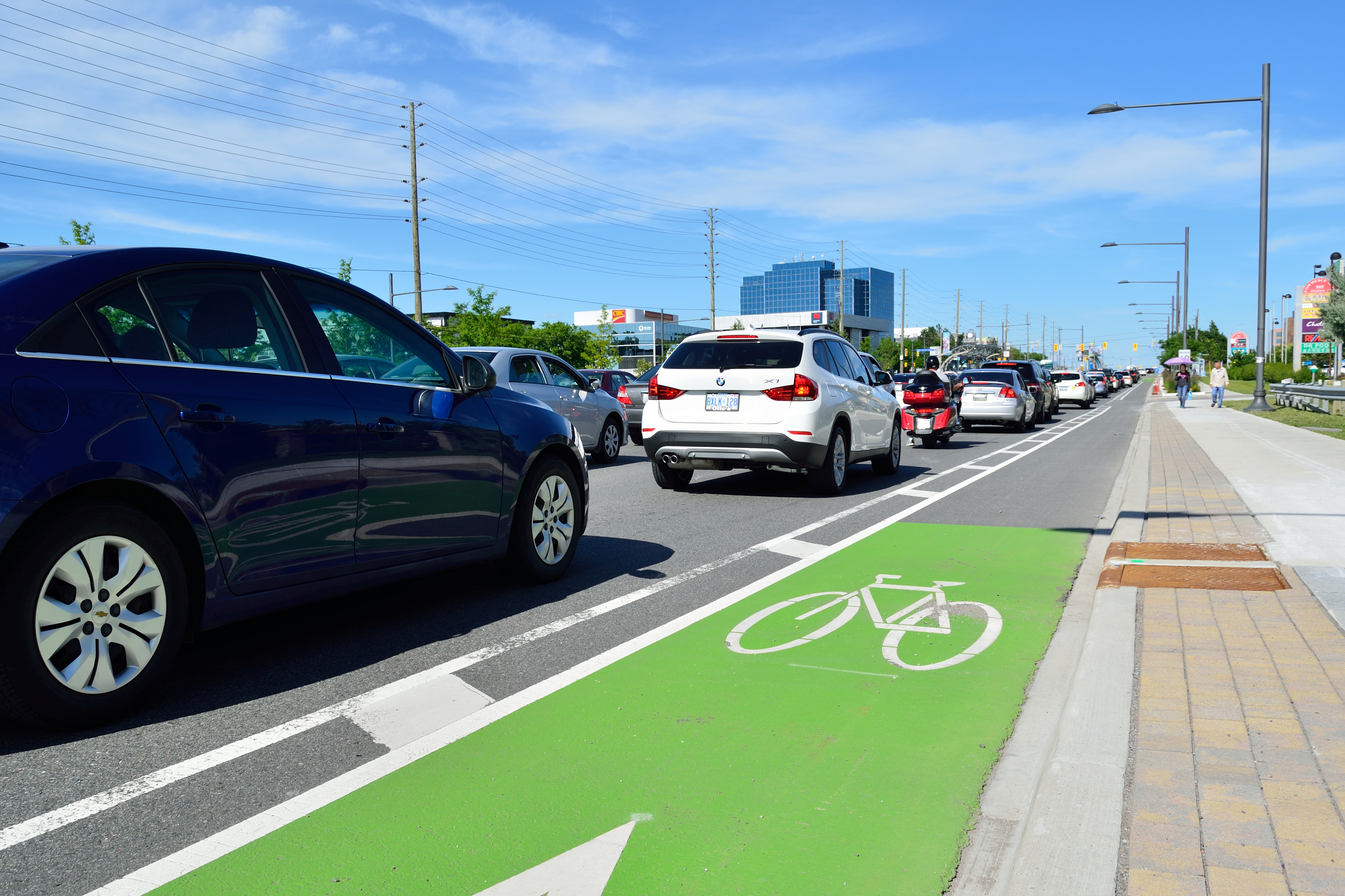 Traffic jam & an empty bike lane.